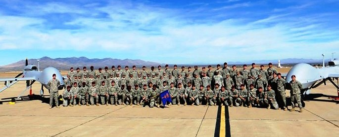 The U.S. Army's 160th Special Operations Aviation Regiment (Airborne), Echo Company and their new MQ-1C Gray Eagles